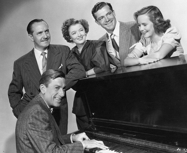 The Best Years of Our Lives, 1946 (publicity still) Standing, L-R: Frederick March, Myrna Loy, Dana Andrews, Teresa Wright; seated at piano: Hoagy Carmichael.